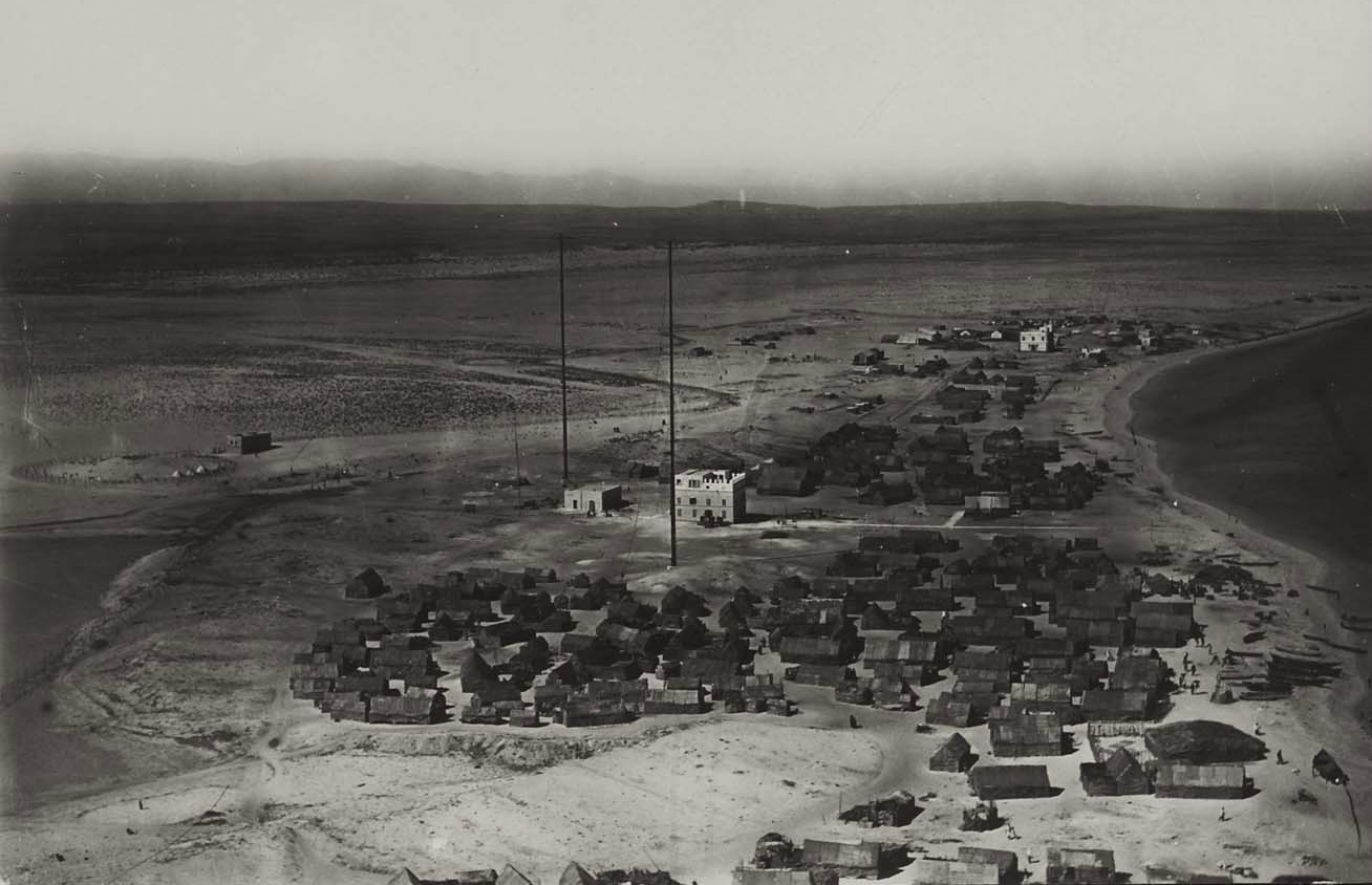 Aerial view of a section of Aluula, Somalia in the 1920s. The area was at the time under the control of the Majeerteen Sultanate, which had a treaty of non-interference with the colonial authorities in Italian Somaliland.